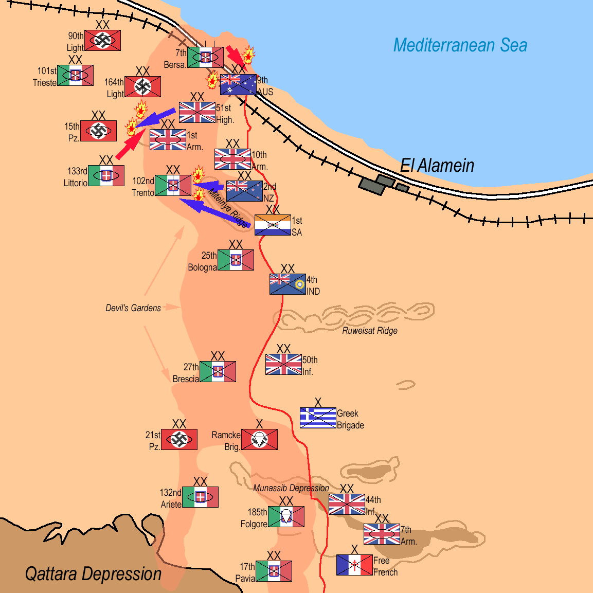 Second Battle of El Alamein: 7th Bersaglieri Regiment attacks 9th Australian Division: 8am- October 26th, 1942. 51st Highland Division takes Kidney Ridge, further advance stoped by counterattack north of Kidney Ridge by Littorio Armoured Division: 5pm- October 26th, 1942. 2nd New Zealand Division and 1st South African Division advance 1km against Trento Division: 5:30pm- October 26th, 1942.